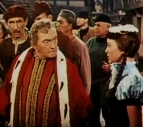 L. to R. : Oliver Blake, Claude Rains & Lori Nelson in the TV-film The Pied Piper of Hamelin - cropped screenshot